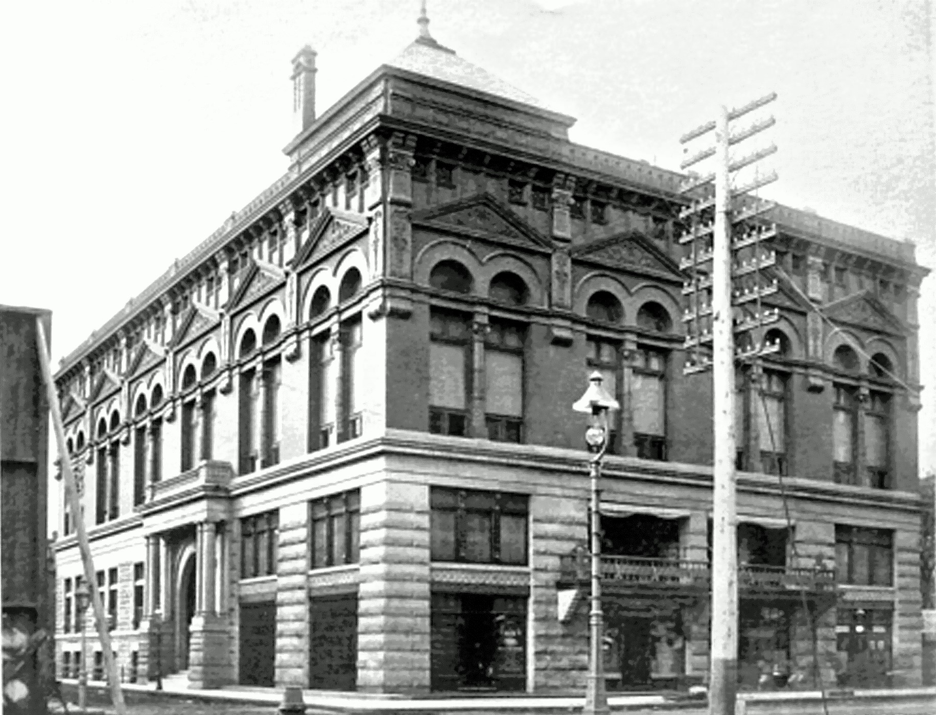 Germania Hall in Chicago Illinois, designed by August Fiedler of Addison & Fiedler in 1888/89